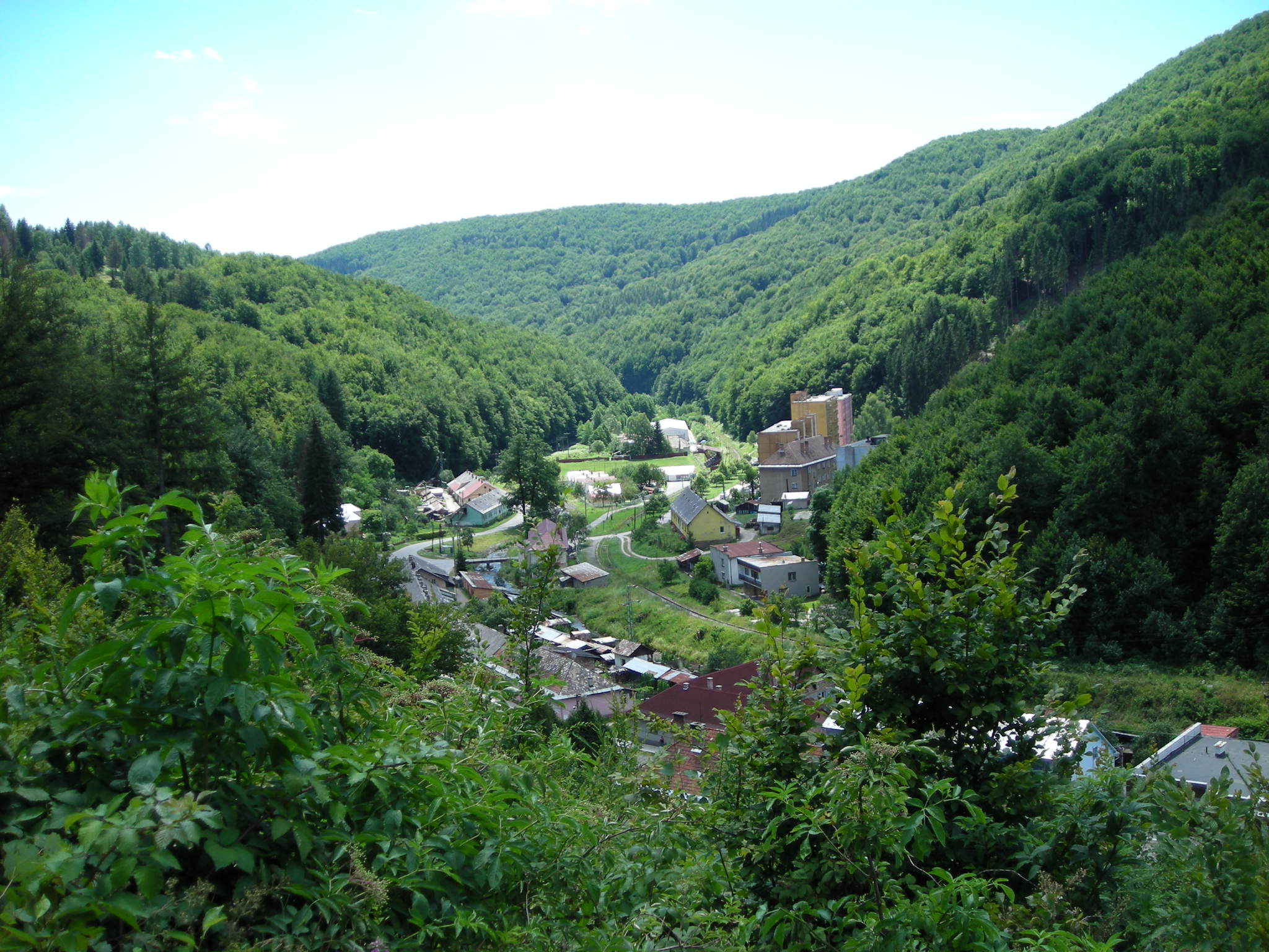 Utekac photo